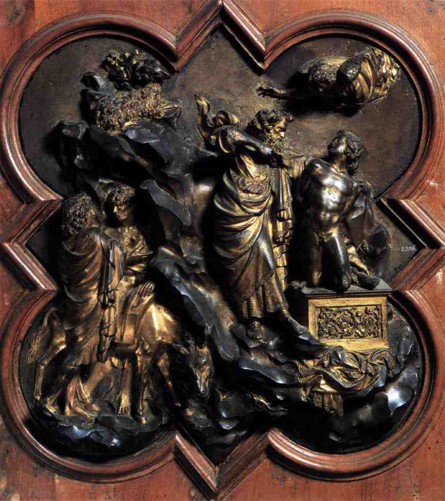 Sacrifice of Isaac